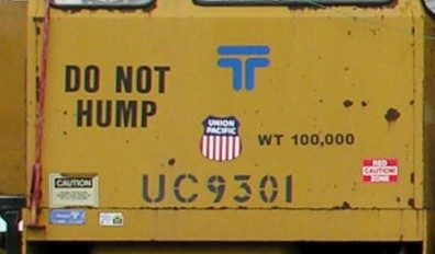 track maintenance vehicle, eastern Wyoming / 2006